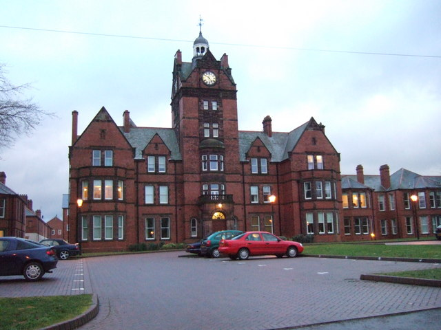 St Edward's Hospital Once a psychiatric hospital, but most of the site is now given over to apartments and new built houses.